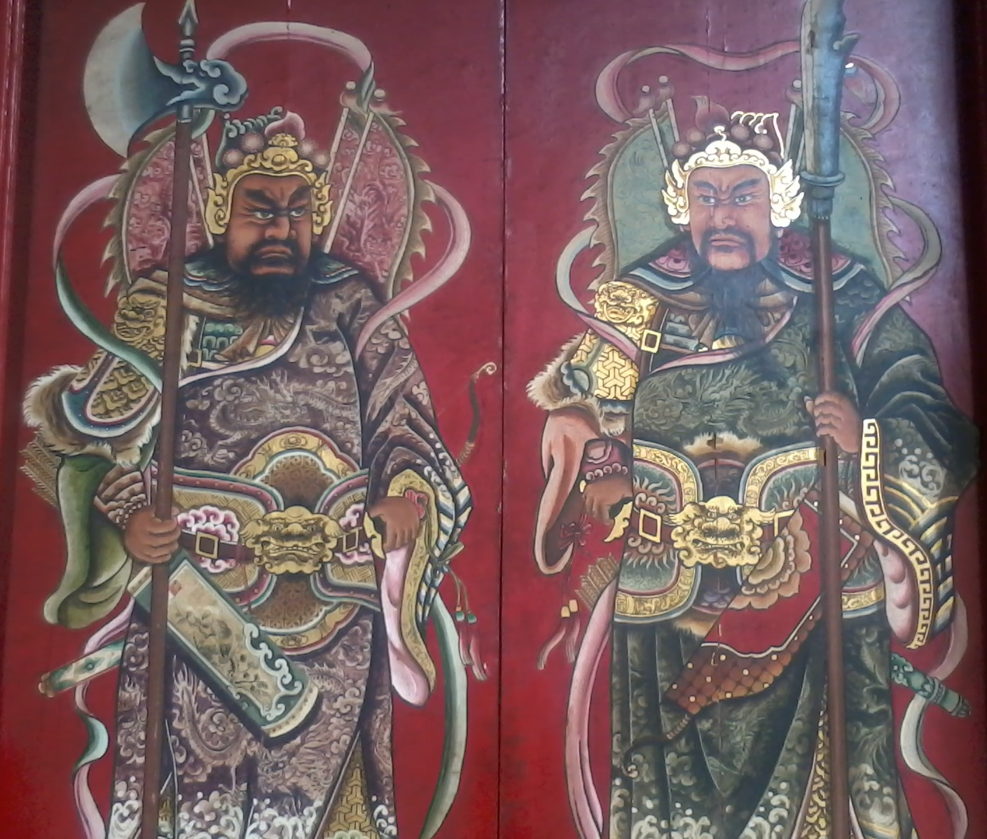 銅鑼灣 天后廟, Tin Hau Temple, Causeway Bay, Hong Kong